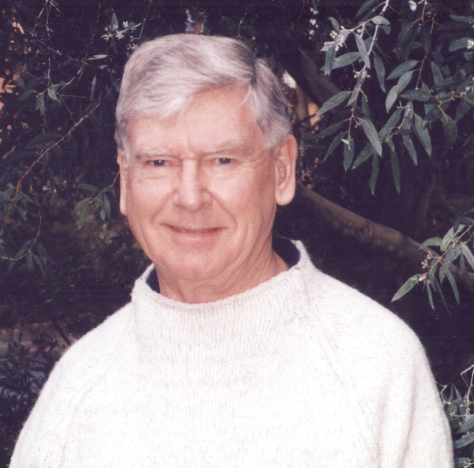 Photograph of Don Kay taken in 2007